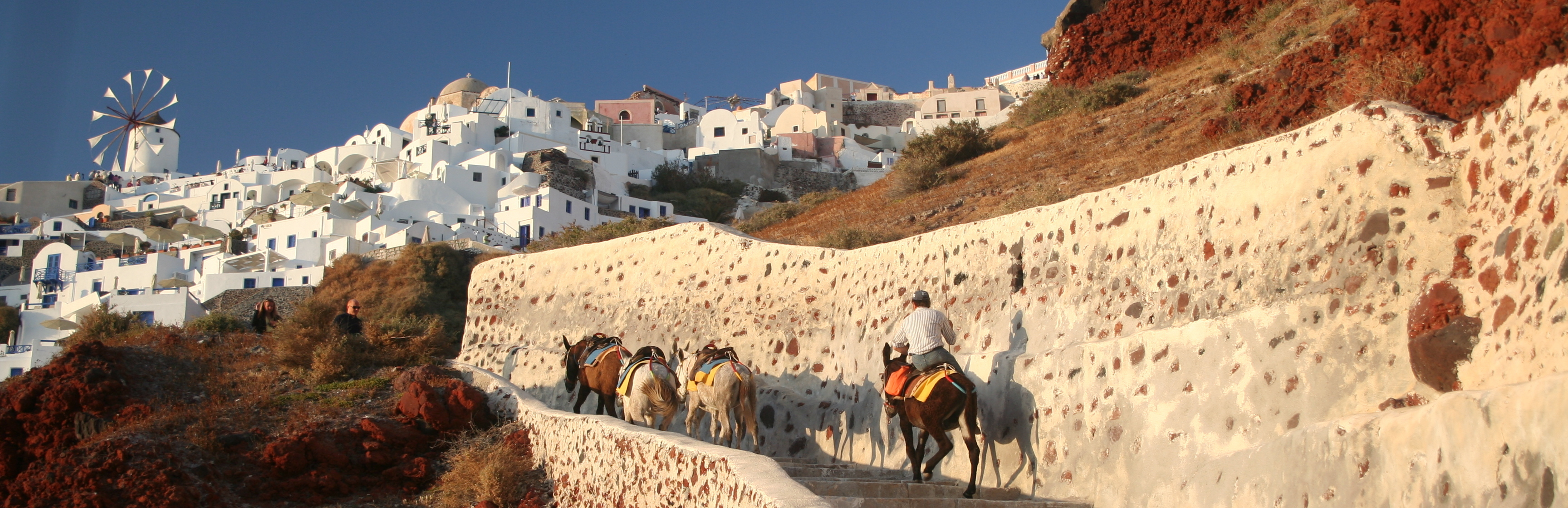 Oia as seen coming from Ammoudi